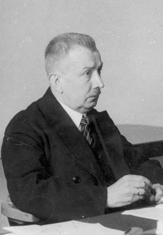 Stefan Borowiecki